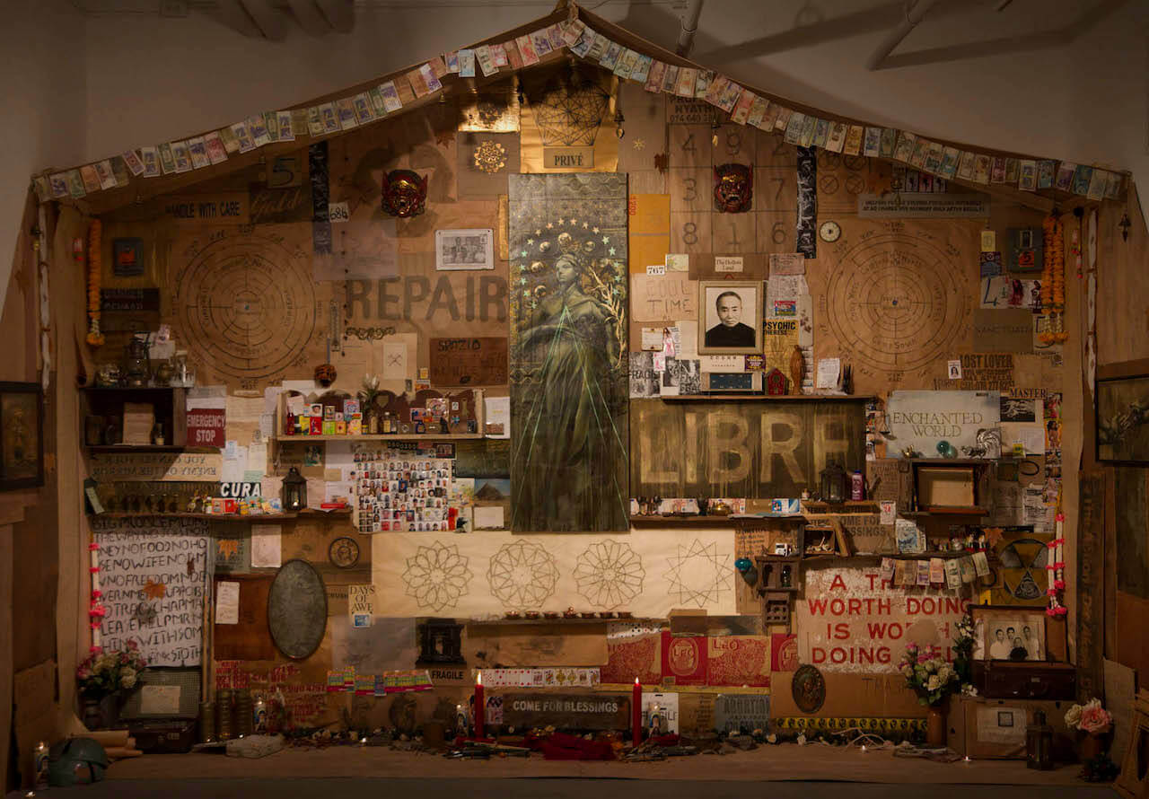 The central shrine at Aqua Regalia - Chapter Two, Faith47's 2015 exhibition at Jonathan Levine Gallery in New York.